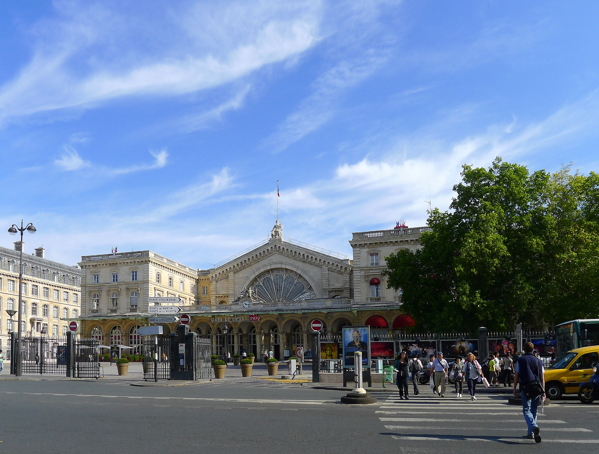 Est railway station - Paris